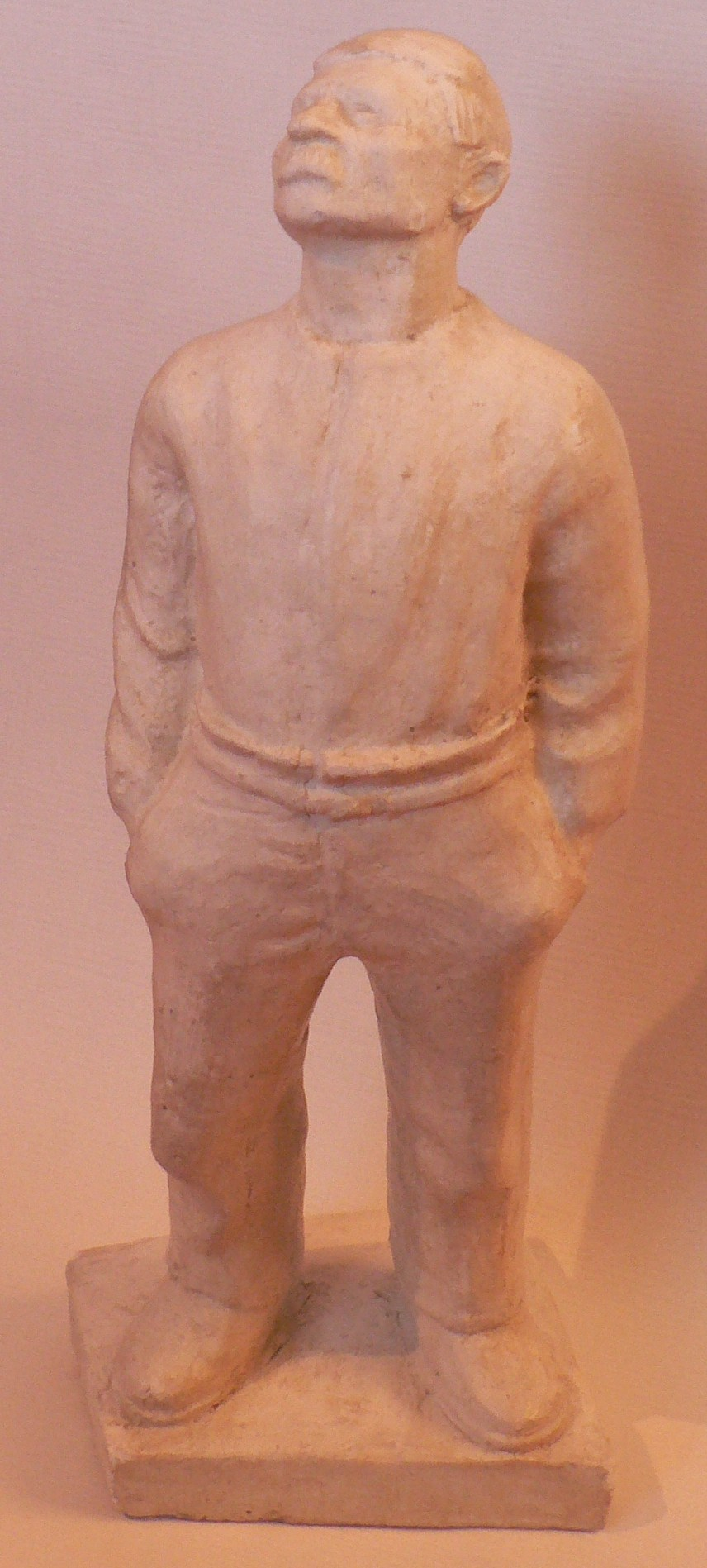 A picture of the swedish artist Holger Perssons statue "Father predicts weather"